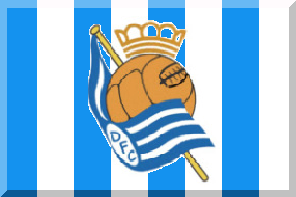 icono Donostia CF